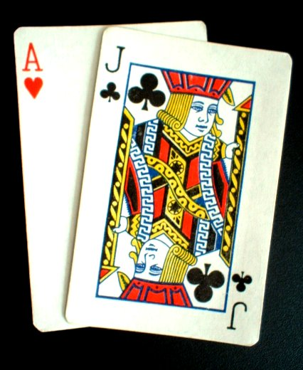 A natural Blackjack (21 points). This picture replaces an older, blurry version.